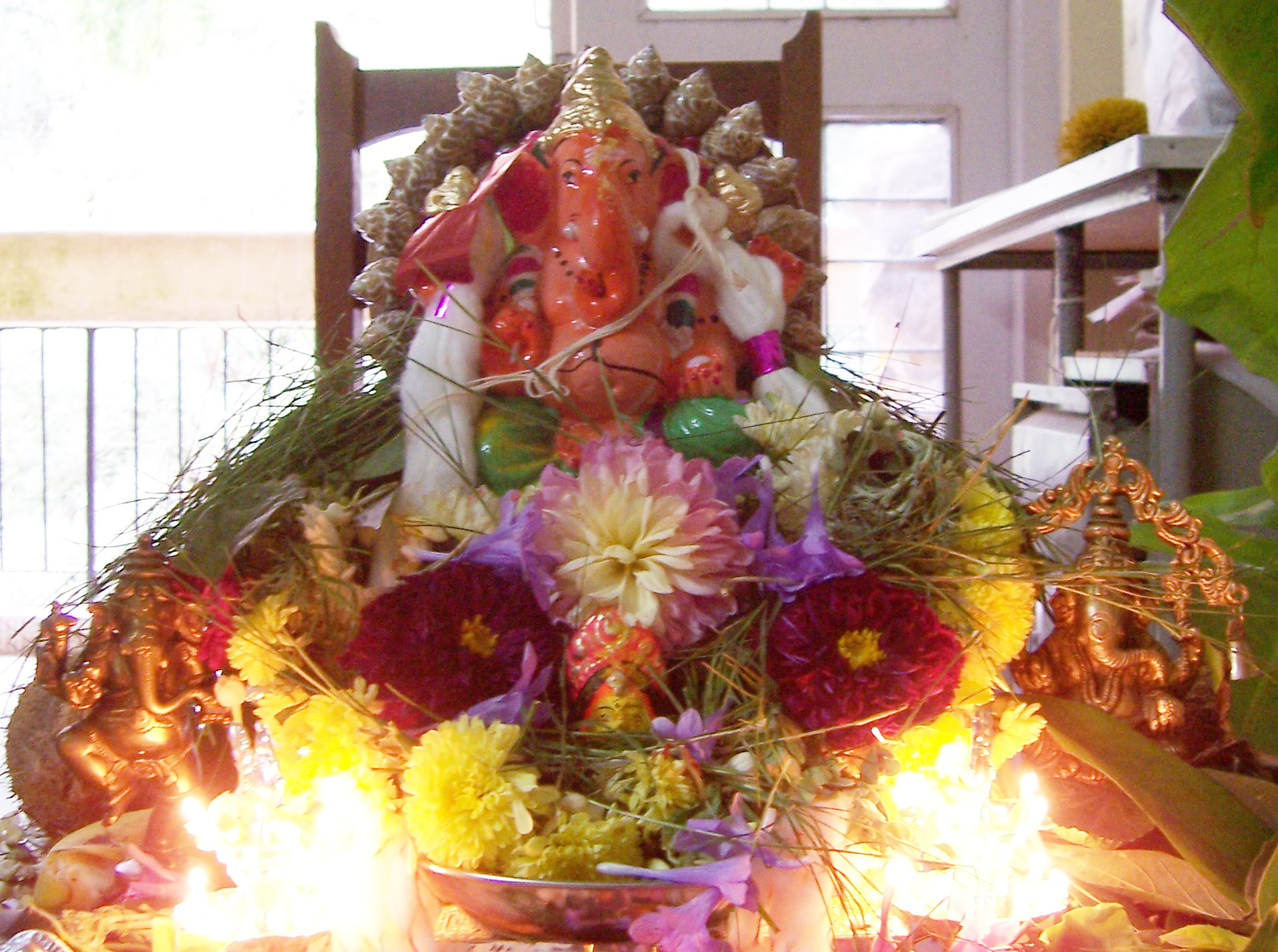 Gowri Habba By the end of the Swarna Gowri Vratha, the turmeric Gowri is hidden under flowers, and only the clay one is visible. It is seen here below the pink and white Dahlia flower, directly placed in front of the Ganesha idol. After Ganesha Chaturthi, as per standard protocol, as part of the Swarna Gowri Vratha, the two idols turmeric Gowri and clay Ganesha are deconsecrated before being dissolved.